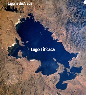 Satellite image showing Lake Titicaca and Lake Arapa.